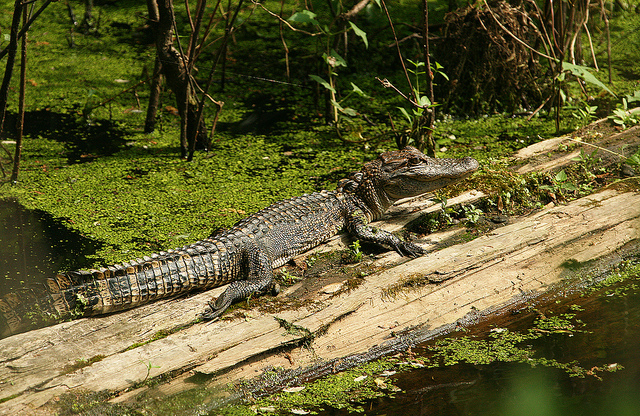 Young American alligator sunning on a log in Yazoo National Wildlife Refuge, Mississippi Photo: D. Scott Lipsey, Creative Commons